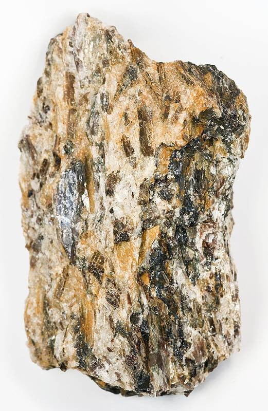 Sillimanite Locality: Yantic Falls, Norwich, New London County, Connecticut, USA (Locality at ) Size: 11.4 x 6.2 x 4.6 cm. Flat-lying, lustrous crystals of sillimanite (to 3 cm) embedded in schist matrix, a rich specimen from a historic old locality. Ex. Philadelphia Academy of Sciences Collection.